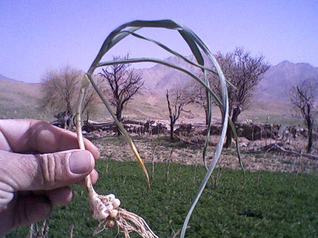 Sermouk. natural or wild onion